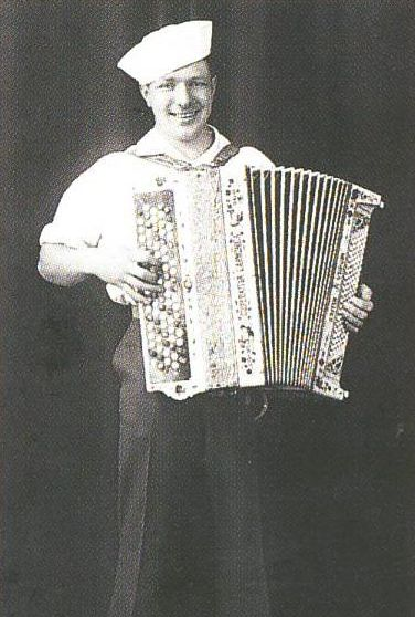 Martti Jäppilä finnish player